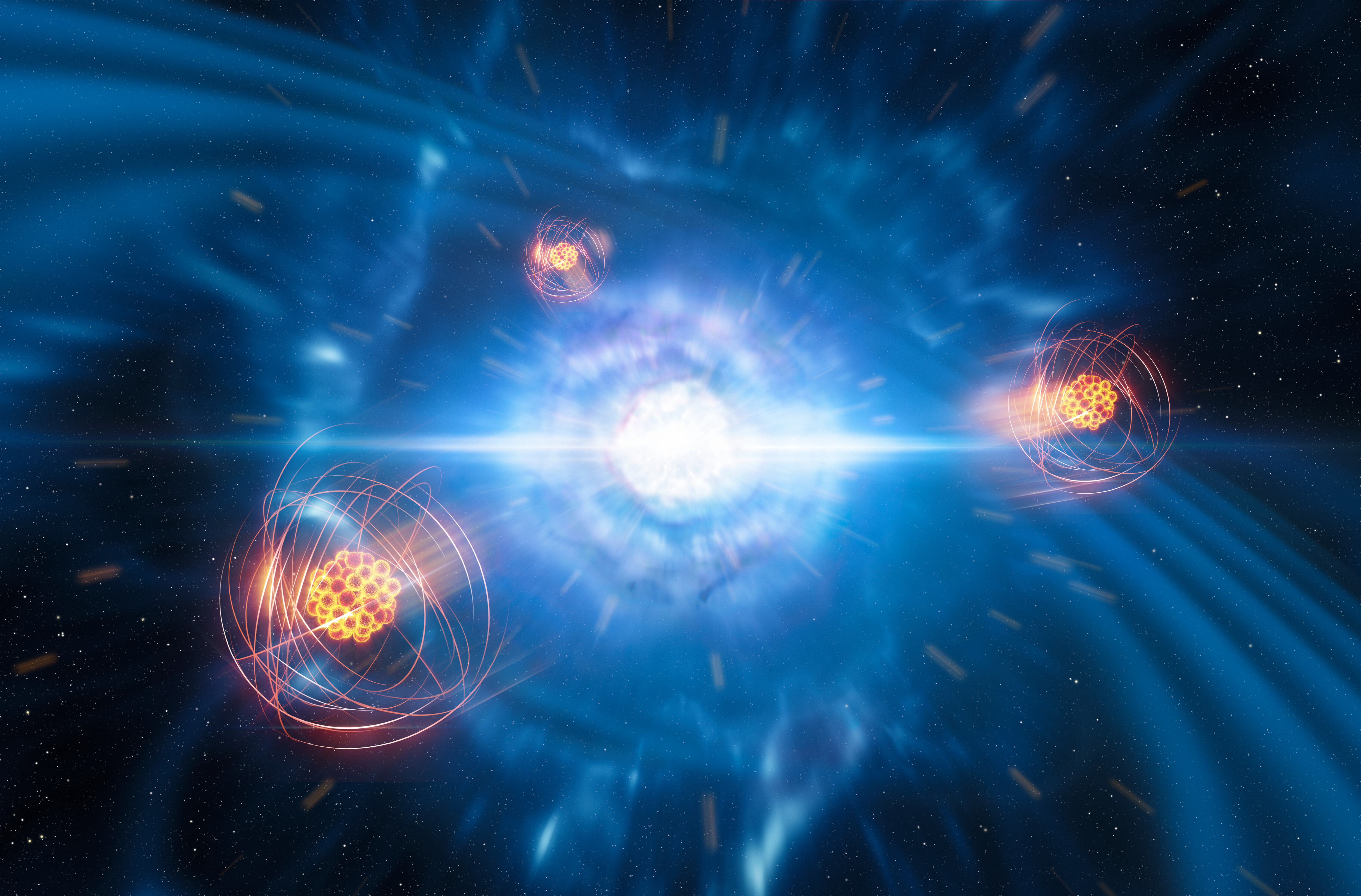 A team of European researchers, using data from the X-shooter instrument on ESO’s Very Large Telescope, has found signatures of strontium formed in a neutron-star merger. This artist’s impression shows two tiny but very dense neutron stars at the point at which they merge and explode as a kilonova. In the foreground, we see a representation of freshly created strontium.